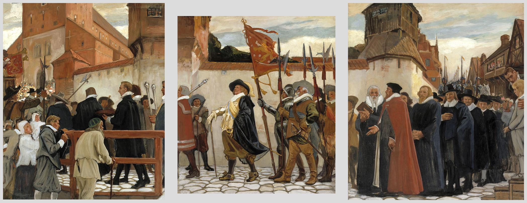 Albert Edelfelts paintings Turun akatemian vihkiäiset, parts 1, 2 and 3 combined.